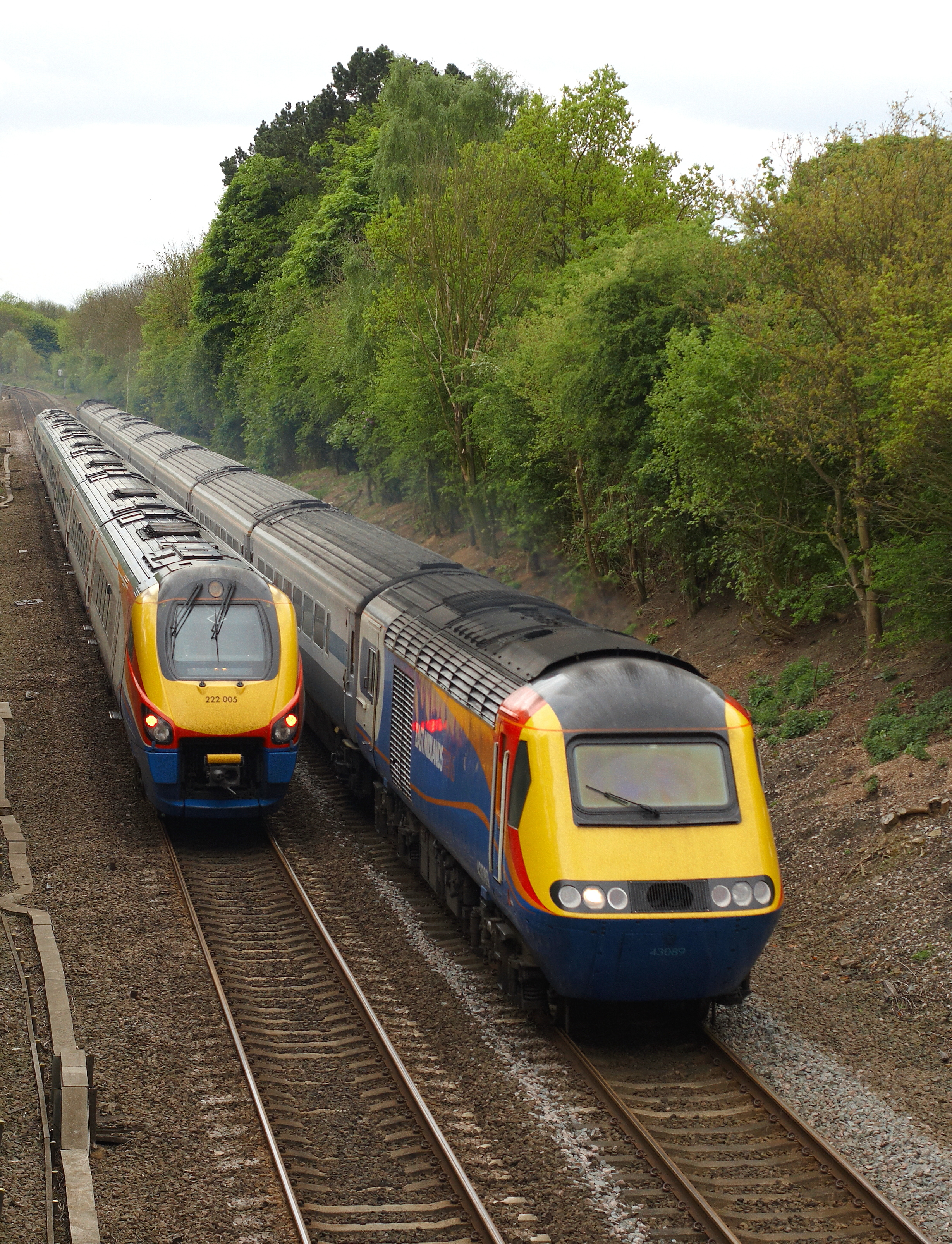 Closing speed , about 180 m.p.h